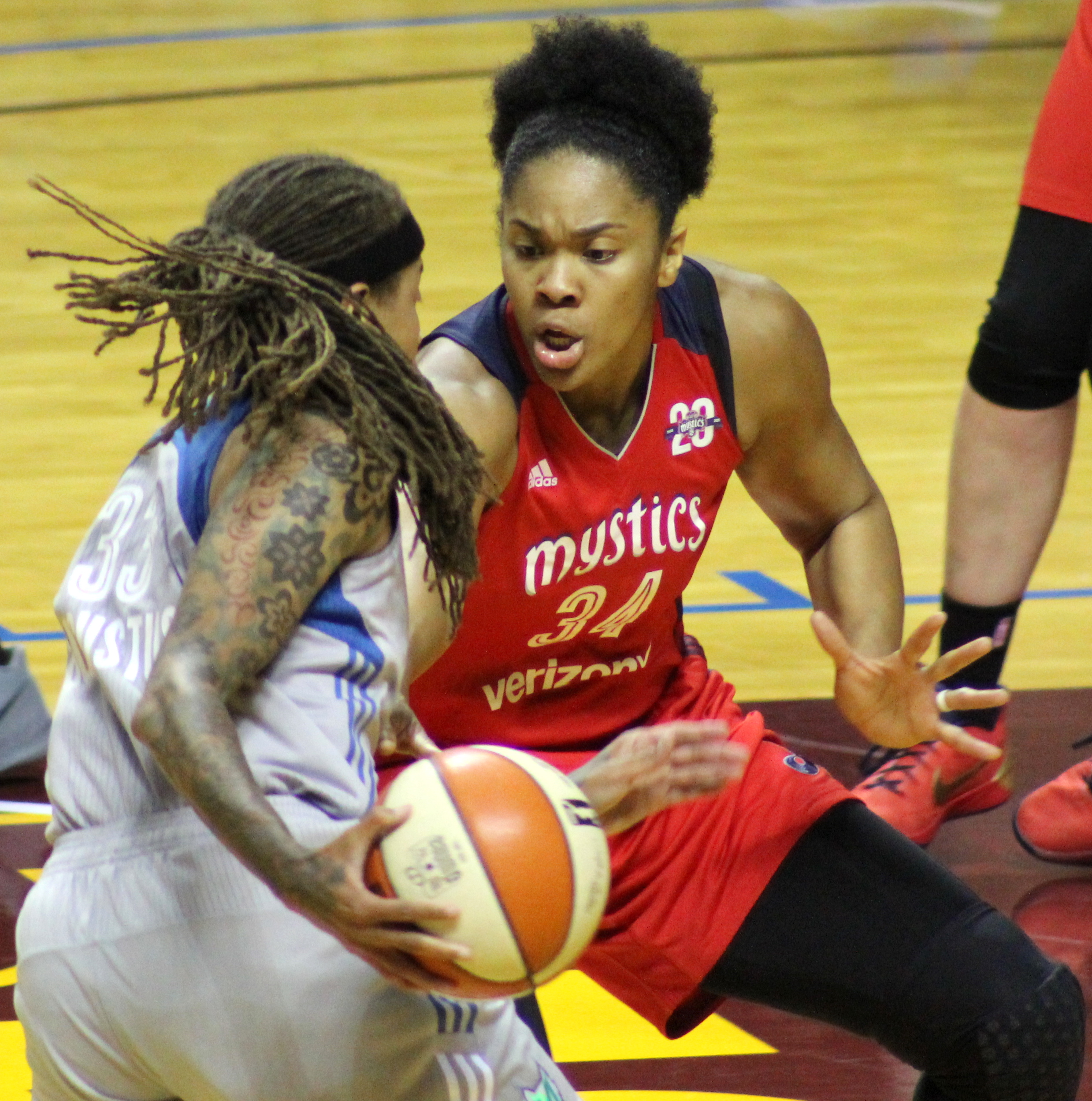 Seimone Augustus and Krystal Thomas